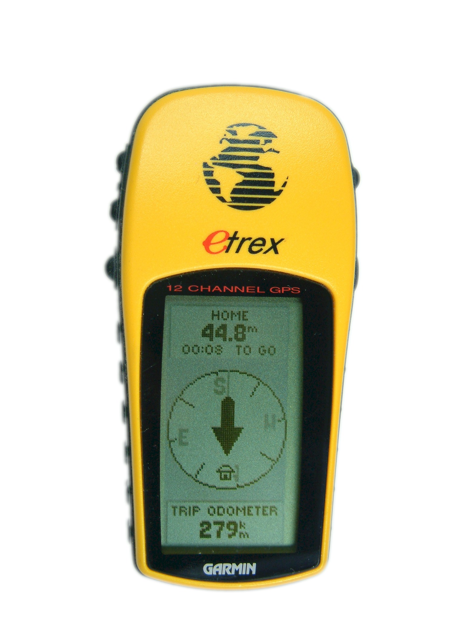 Garmin eTrex Yellow GPS navigating towards a way point showing direction of travel, distance and estimated time of arrival